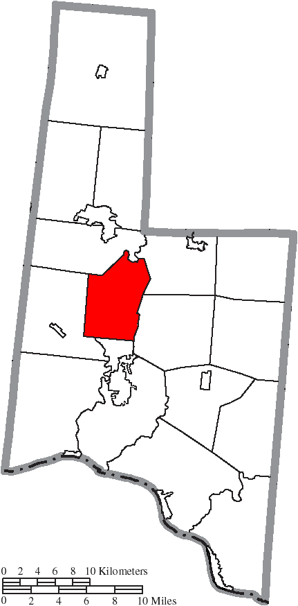 Map of the municipal and township boundaries of Brown County, Ohio, United States, as of the 2000 census, with the location of Scott Township highlighted. Township borders are shown only in unincorporated areas in order to differentiate incorporated and unincorporated areas more clearly.